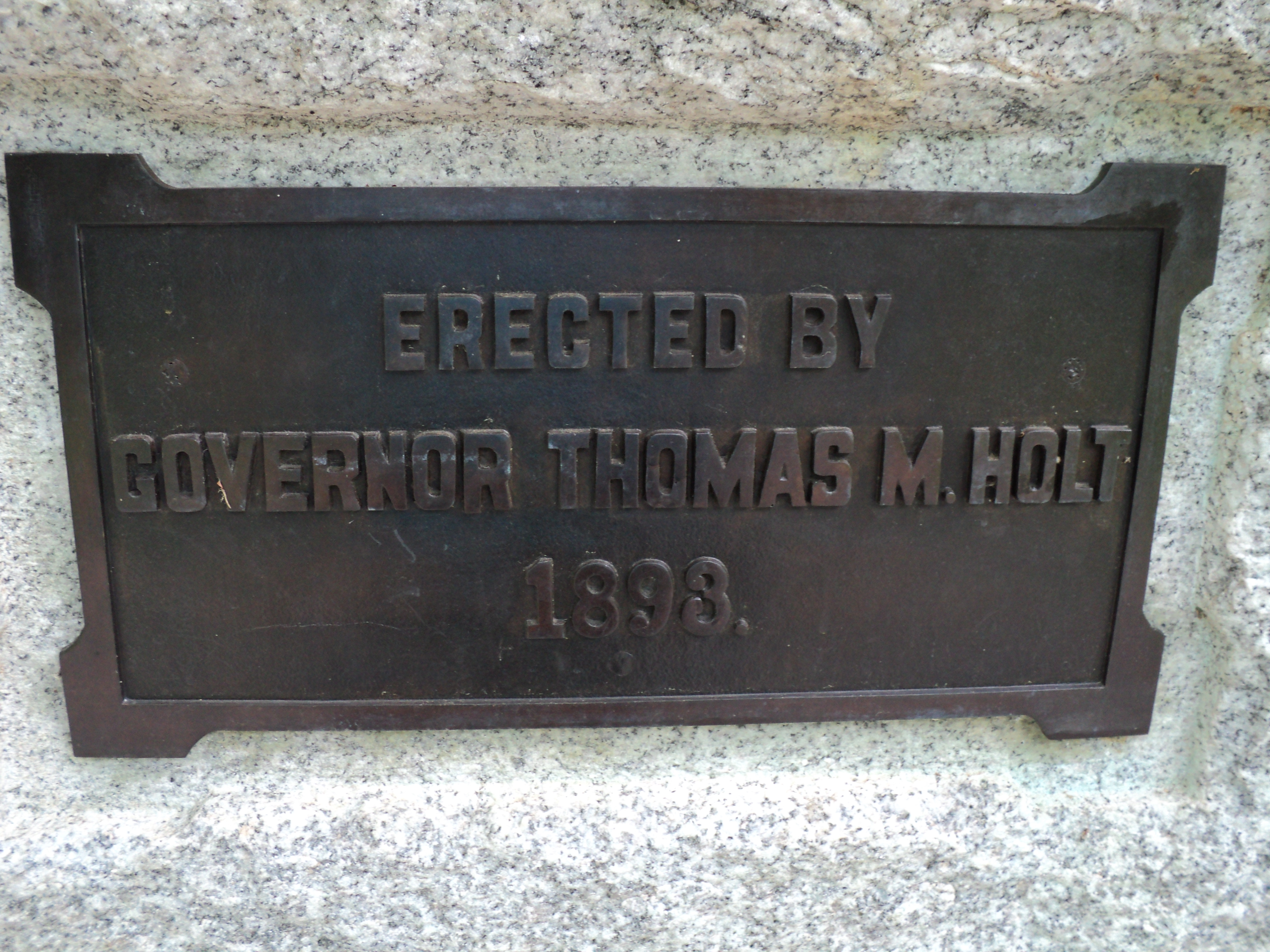 Bronze plaque to North Carolina Governor Thomas Michael Holt on the basis of the monument to Major Joseph Winston, Guilford Courthouse National Military Park. Originally founded by the Guilford Battleground Company, the site of the battle of Guilford Court House later became a United States military park. Instrumental in founding the Guilford Battleground company, Governor Holt also donated funds allowing completion of the park's monuments.